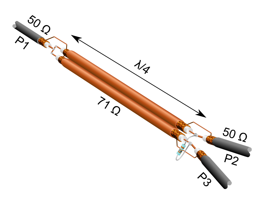 Wilkinson power divider constructed from rigid coaxial lines.